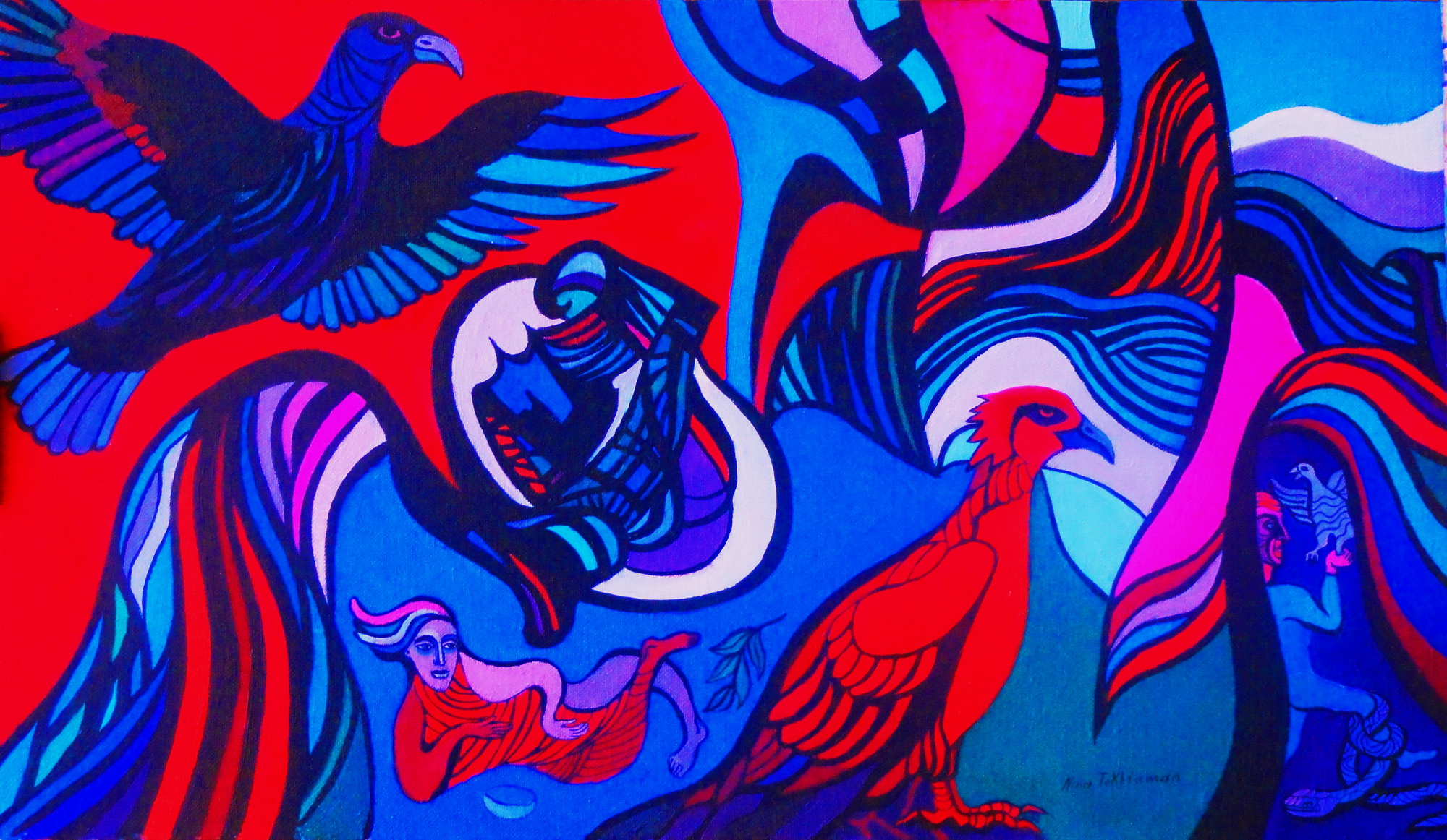 Painting by Nina Tokhtaman Valetova.